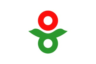 Flag of Katsuragi Nara